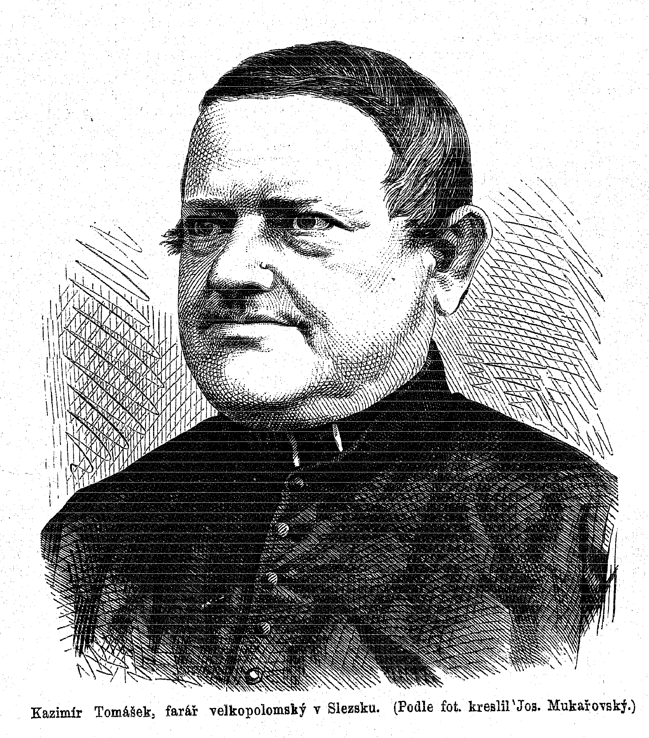 Portrait of Kazimír Tomášek (1817-1876), priest in Velká Polom in Austrian Silesia.